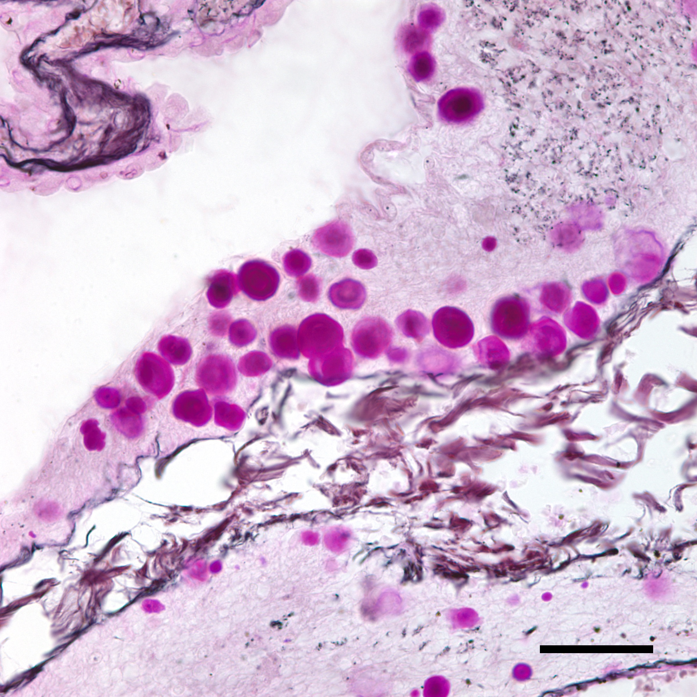 This microscopic image shows corpora amylacea (purple spheres) in the brain of a person who had died with Alzheimer's disease. Corpora amylacea are common in the aging human brain, although they are more numerous in certain neurodegenerative diseases such as Alzheimer's. The region in the center is the taenia of the fimbria, part of the hippocampal formation. The tissue section was stained with the periodic acid-Schiff stain (pinkish/purple) along with a silver stain (black). The bar indicates a distance of 50 micrometers (0.05 millimeters).